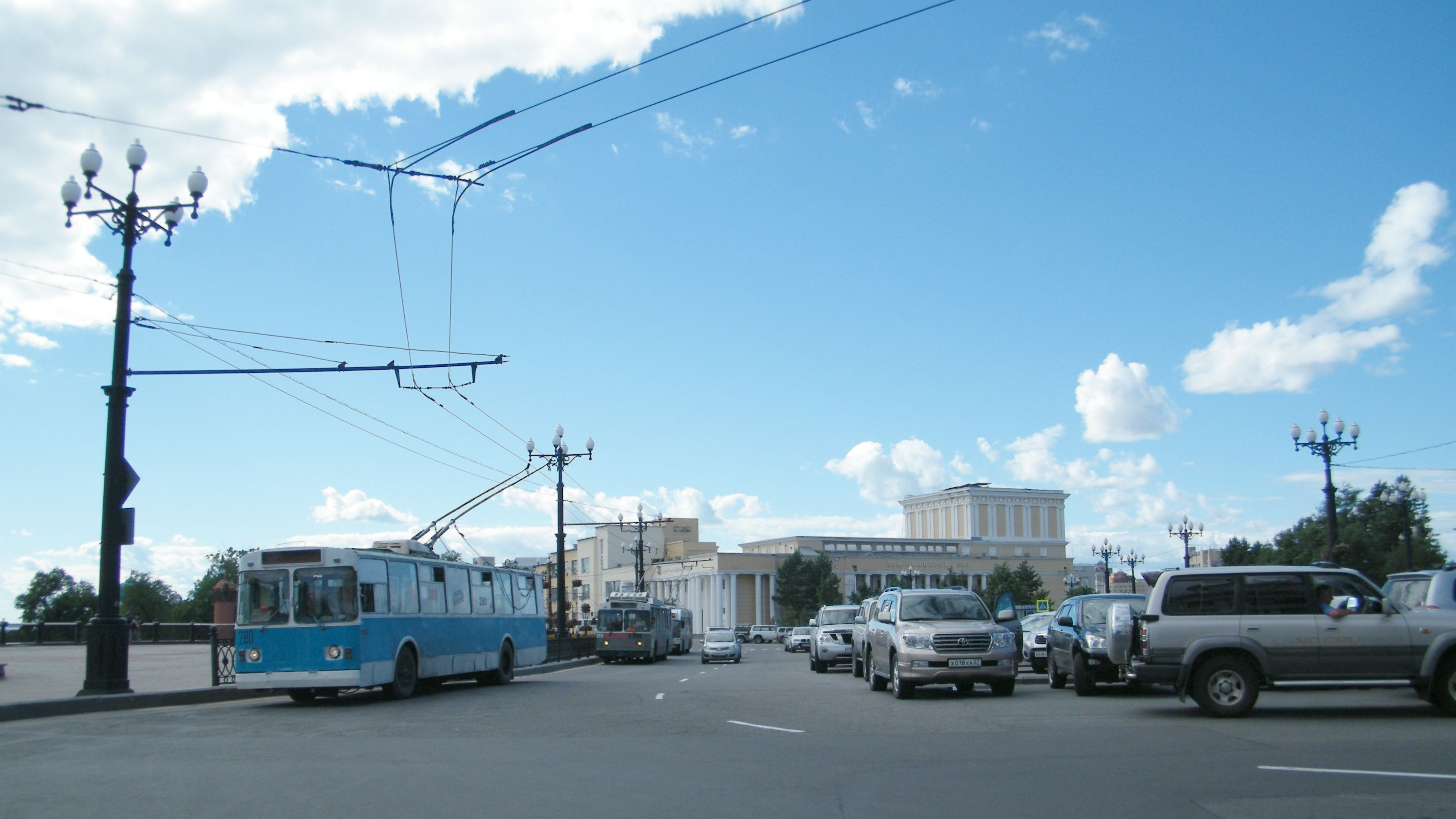 Trolleybuses in Khabarovsk